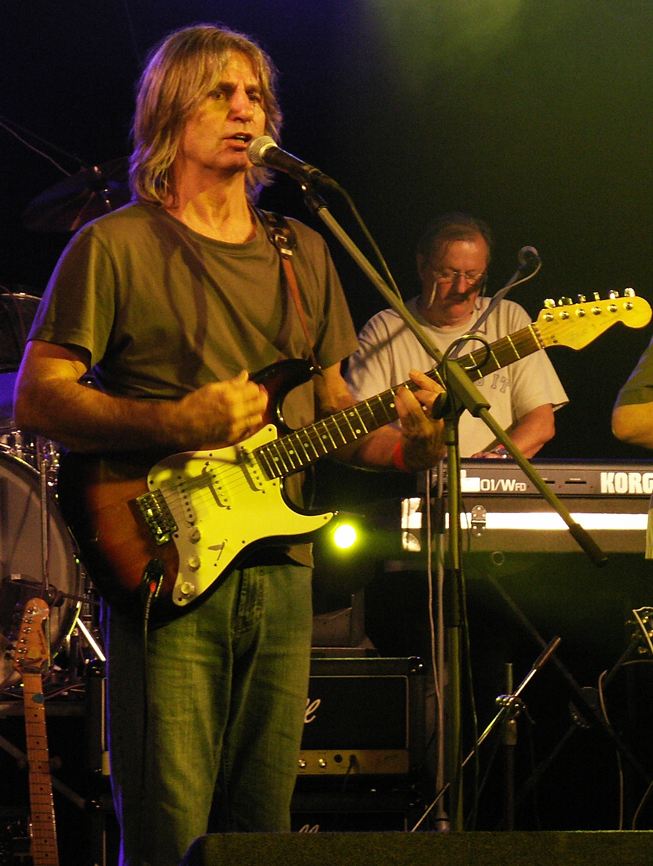 Pavel Váně, guitarist and singer of Progres 2